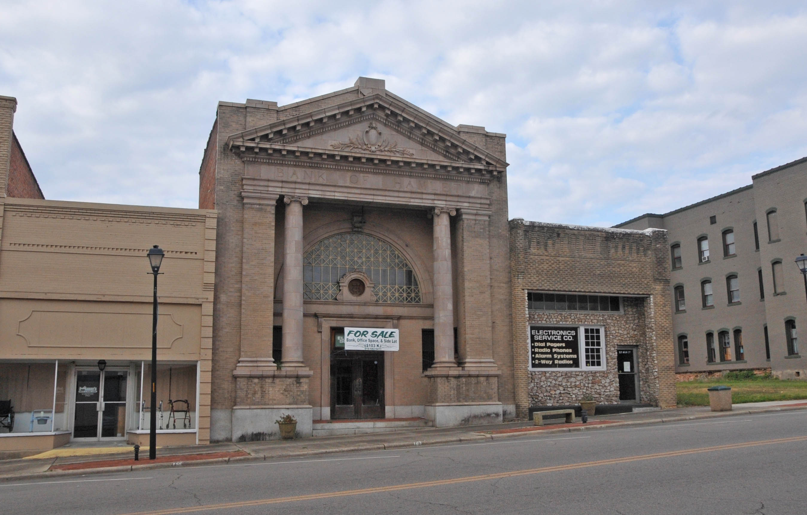 LATE 19TH & 20TH CENTURY STYLES WHICH INCLUDE CLASSICAL REVIVAL, MODERN MOVEMENT, VICTORIAN, AND ART DECO